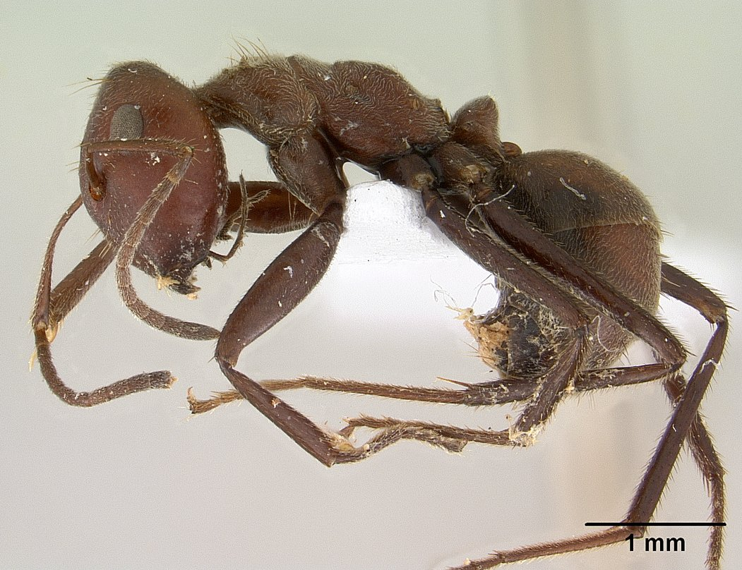 Profile view of ant Camponotus saundersi specimen casent0179025.